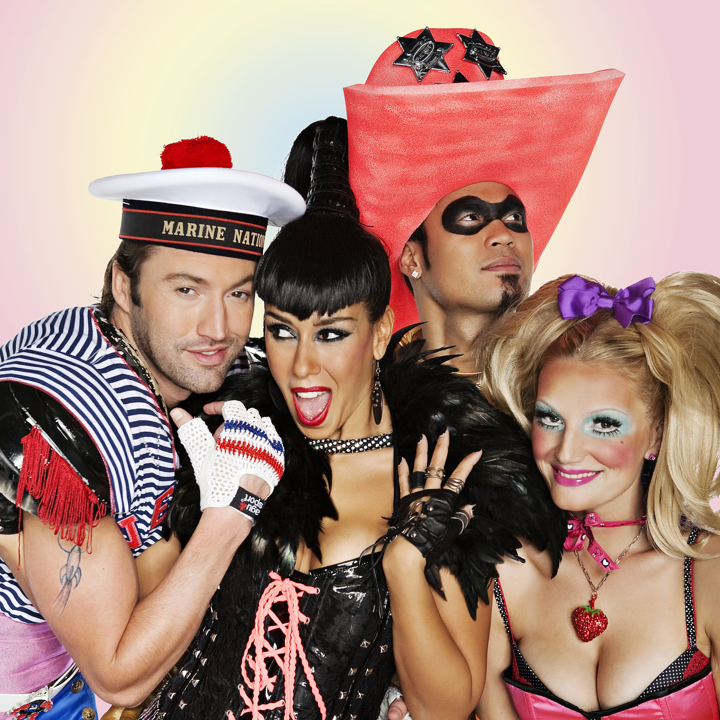 Photo of Dutch Eurodance group Vengaboys